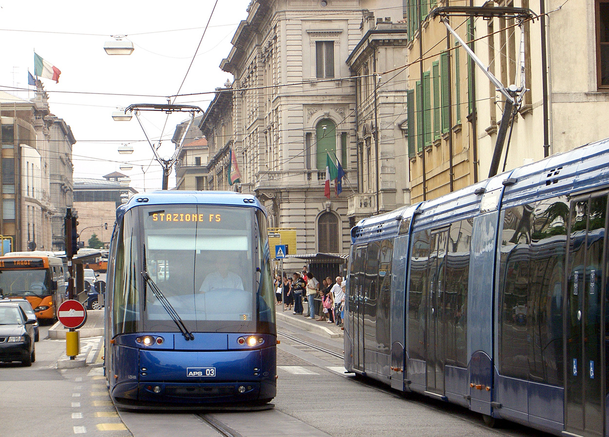 Two pass near the Eremintani stop, with there being a very healthy crowd waiting on the platform.